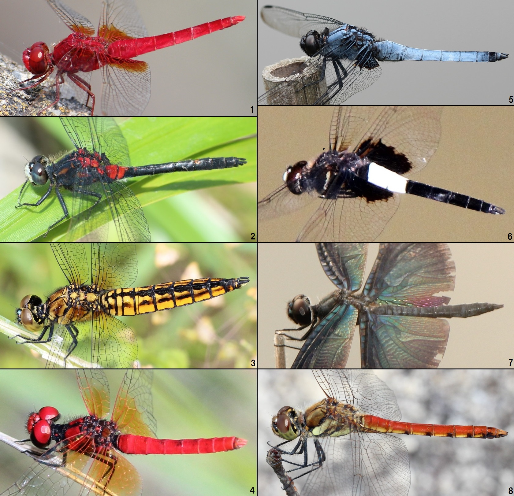 Montages of Libellulidae in Japan.